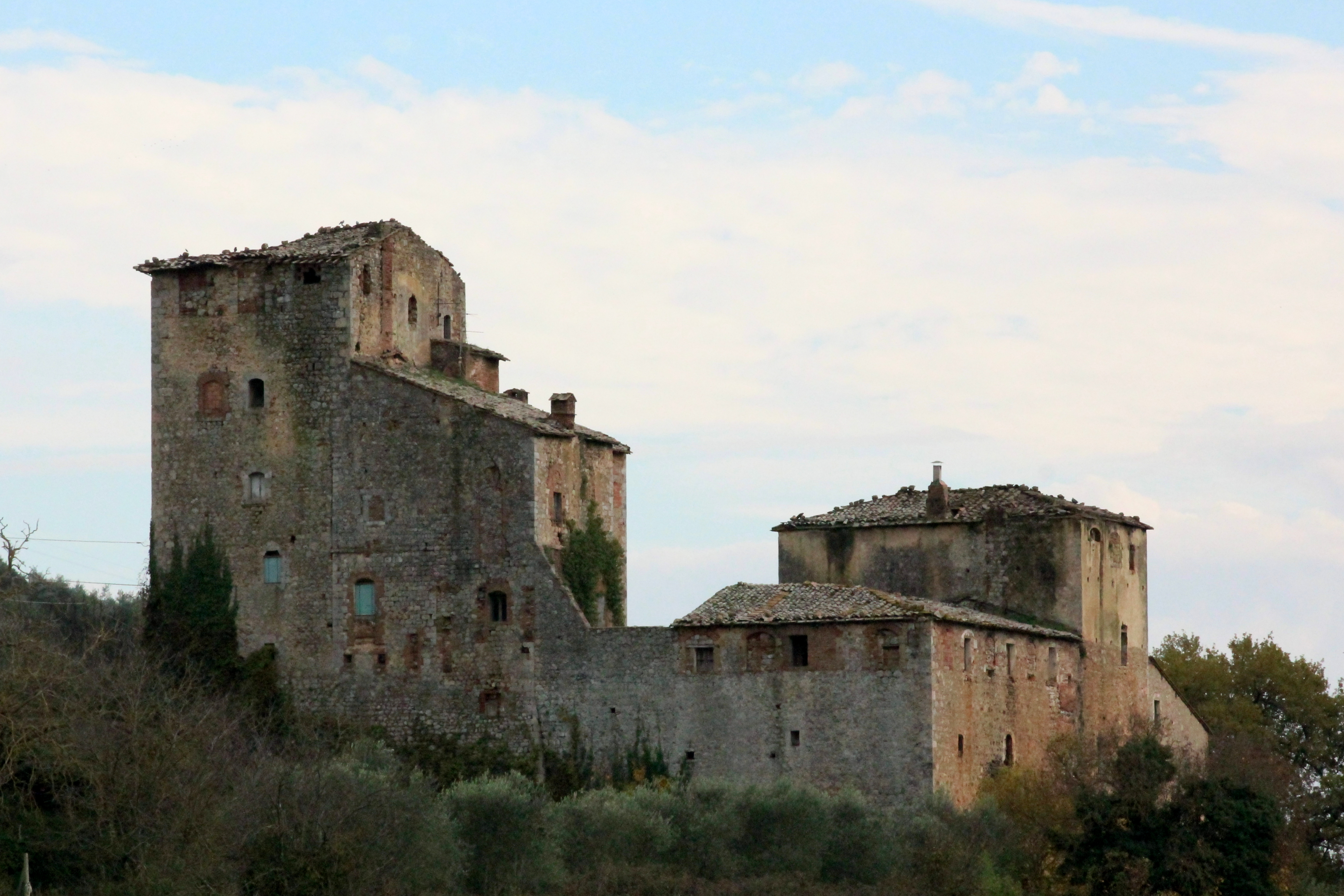 Palazzaccio di Toiano, Toiano, Village in the Territory of Sovicille, Province of Siena, Tuscany, Italy